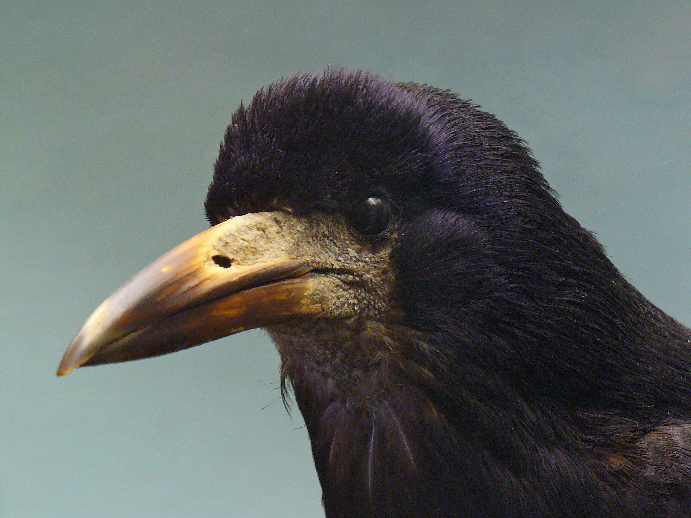 Corvus frugilegus, Corvidae, Rook; Staatliches Museum für Naturkunde Karlsruhe, Germany.